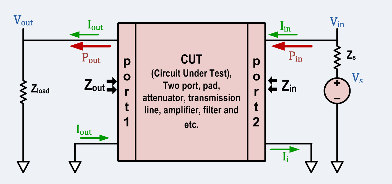 General application of a two-port with voltage, current and power variable shown with source on the right and load on the left.